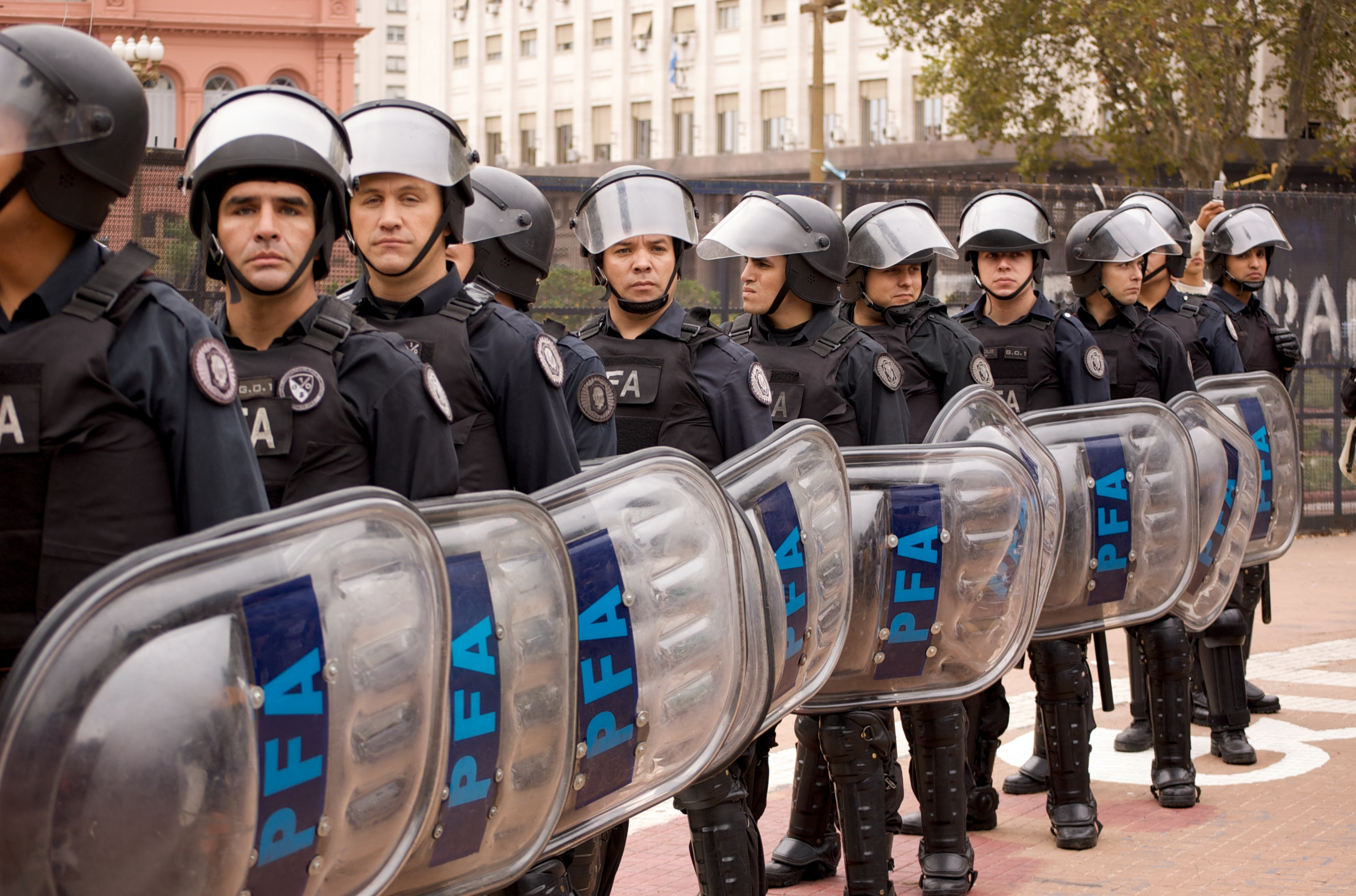 2008 Summer Olympics torch relay in Buenos Aires.